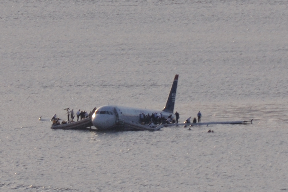 US Airways Flight 1549 in the Hudson River New York, USA